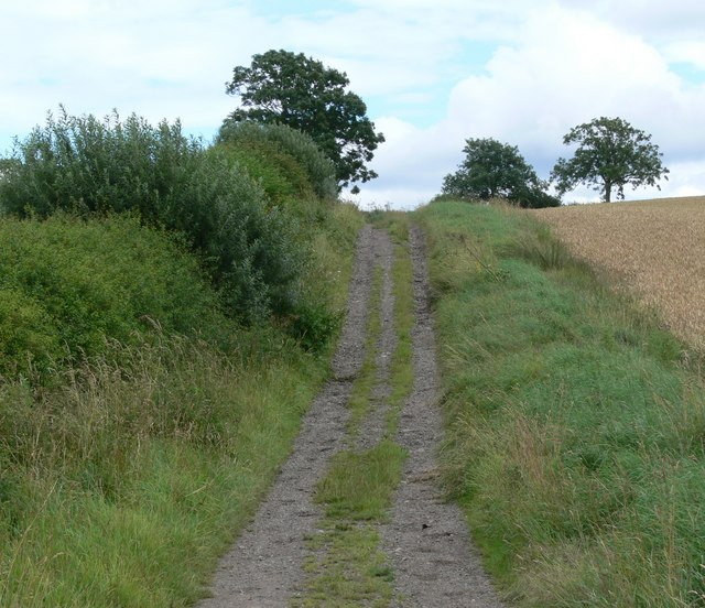 Via Devana, Roman Road The Roman Gartree Road. At this point the Roman Road is nothing more than an unpaved track.